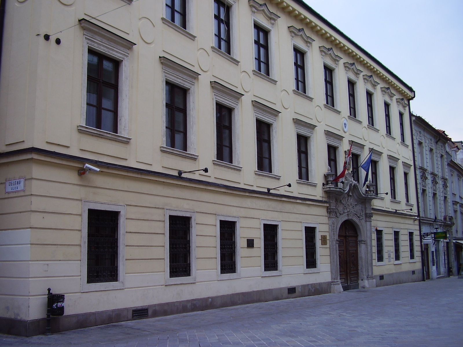 Pálffy palace, Austrian embassy, Bratislava This medium shows the protected monument with the number 101-45/1 in the Slovak Republic.